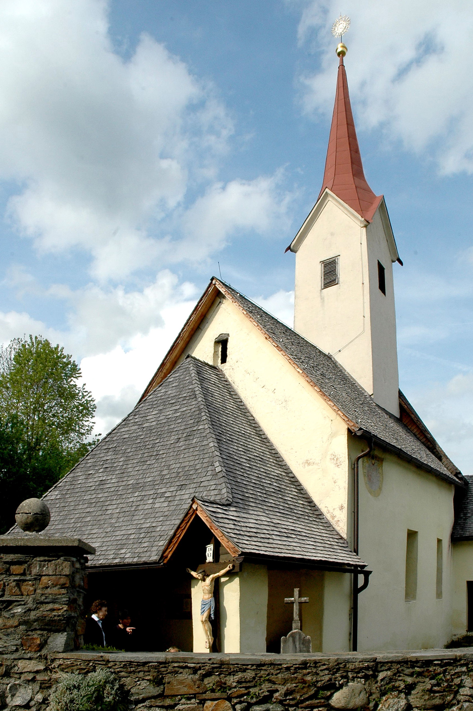 Subsidiary church Saint Bartholomew with cemetery in Sankt Bartlmä, municipality Techelsberg, district Klagenfurt Land, Carinthia, Austria, EU